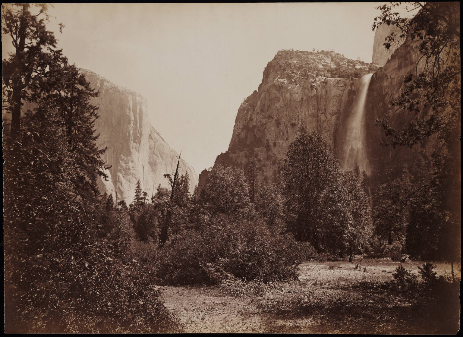 "View of Tutocanula Pass, Yosemite, California," mammoth plate, by the American photographer Carleton E. Watkins. Yale Collection of Western Americana, Beinecke Rare Book and Manuscript Library, Yale University, New Haven, Conn.